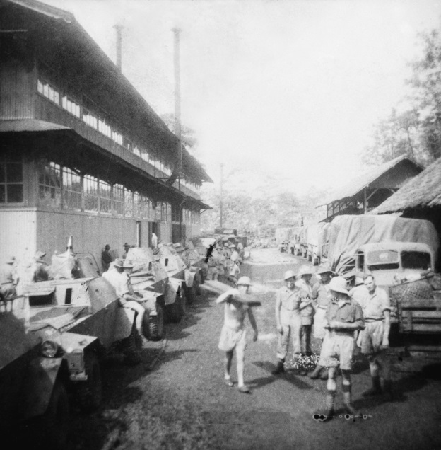 Machine gunners from the Australian 2/3rd MG Bn at Arinem Plantation, Java